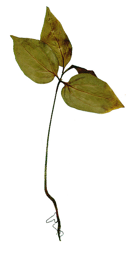 Diospyros lotus seedling